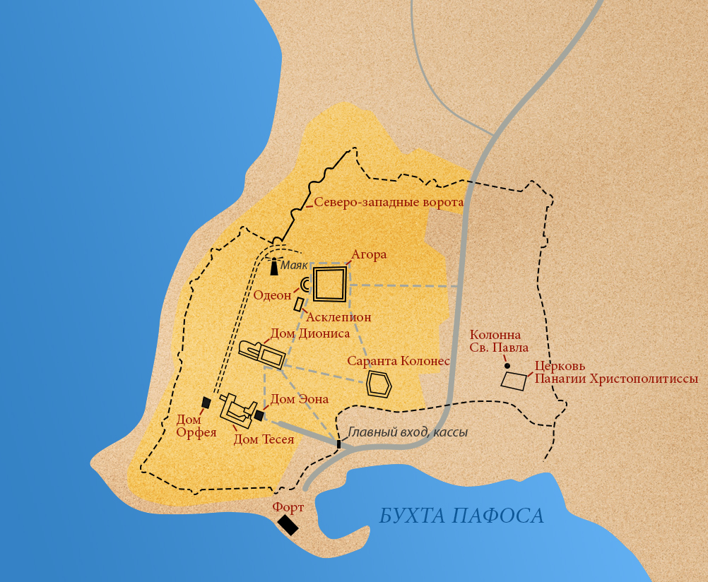 Scheme of Kato Pafos